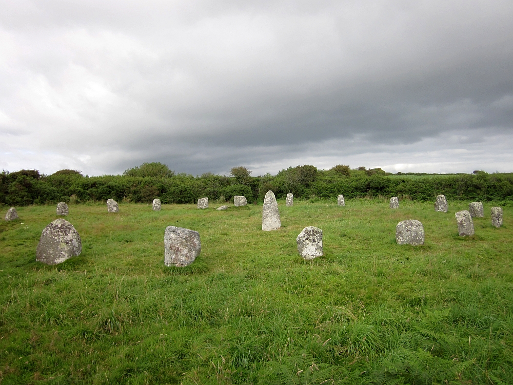 Boscawen-ûn stone circle in Cornwall UK